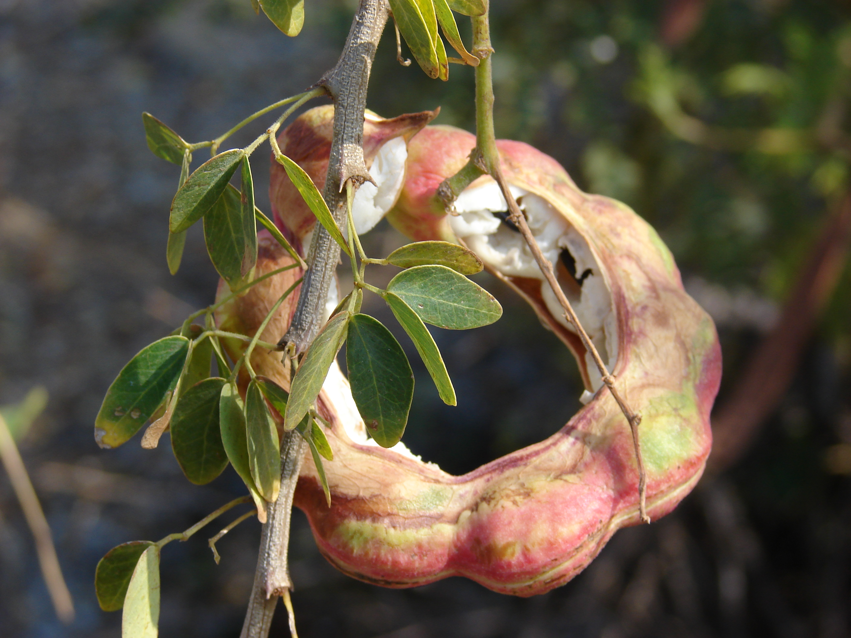 Pithecellobium dulce (seedpods). Location: Maui, Ukumehame